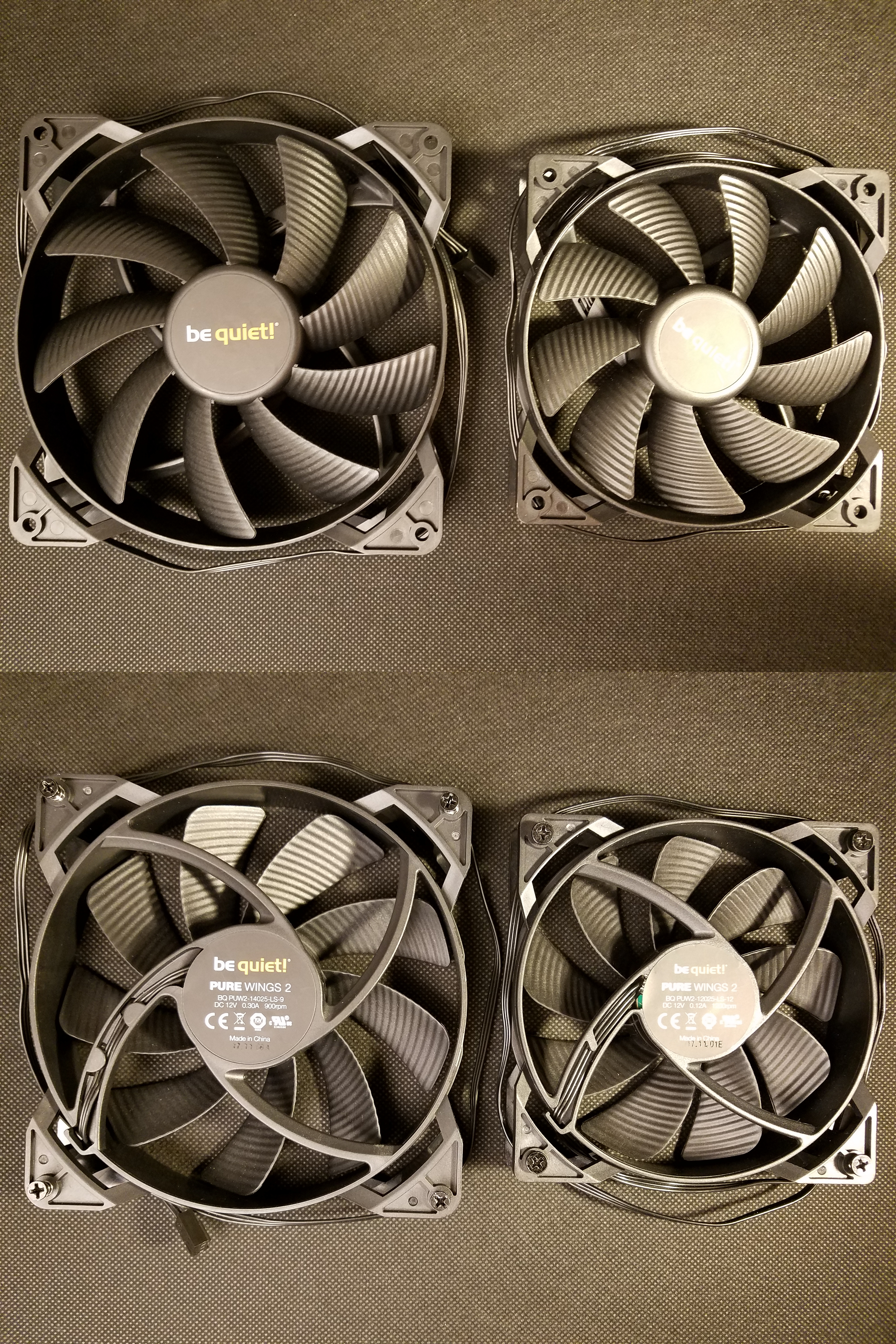 Two fans installed by default on the computer case be quiet BG021. The smallest 12cm fan running at 1200 rpm is located at the back of the case to extract the air from the processor whose the air cooling is close. It can not be bigger because it has to share the backspace with the outputs of the motherboard. The largest 14cm fan rotating at 900 rpm is located on the front panel and will suck outside air to inject it into the case. By rotating faster the smaller fan will allow a flow comparable to the largest, it allows to have a balance between the air drawn and extracted from the case for optimal ventilation.